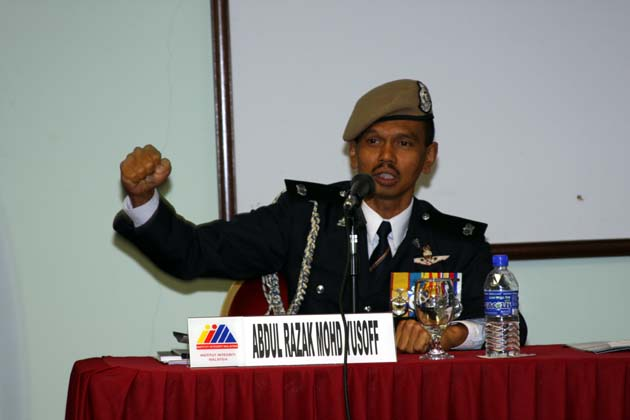 DSP Abdul Razak story his experience in negotiating with terrorist leader Al-Ma'unah at the Anecdote Police History Council 'Warisan Perjuangan Perwira Sang Saka Biru' at the Malaysian Institute of Integrity (IIM) on January 7, 2008.